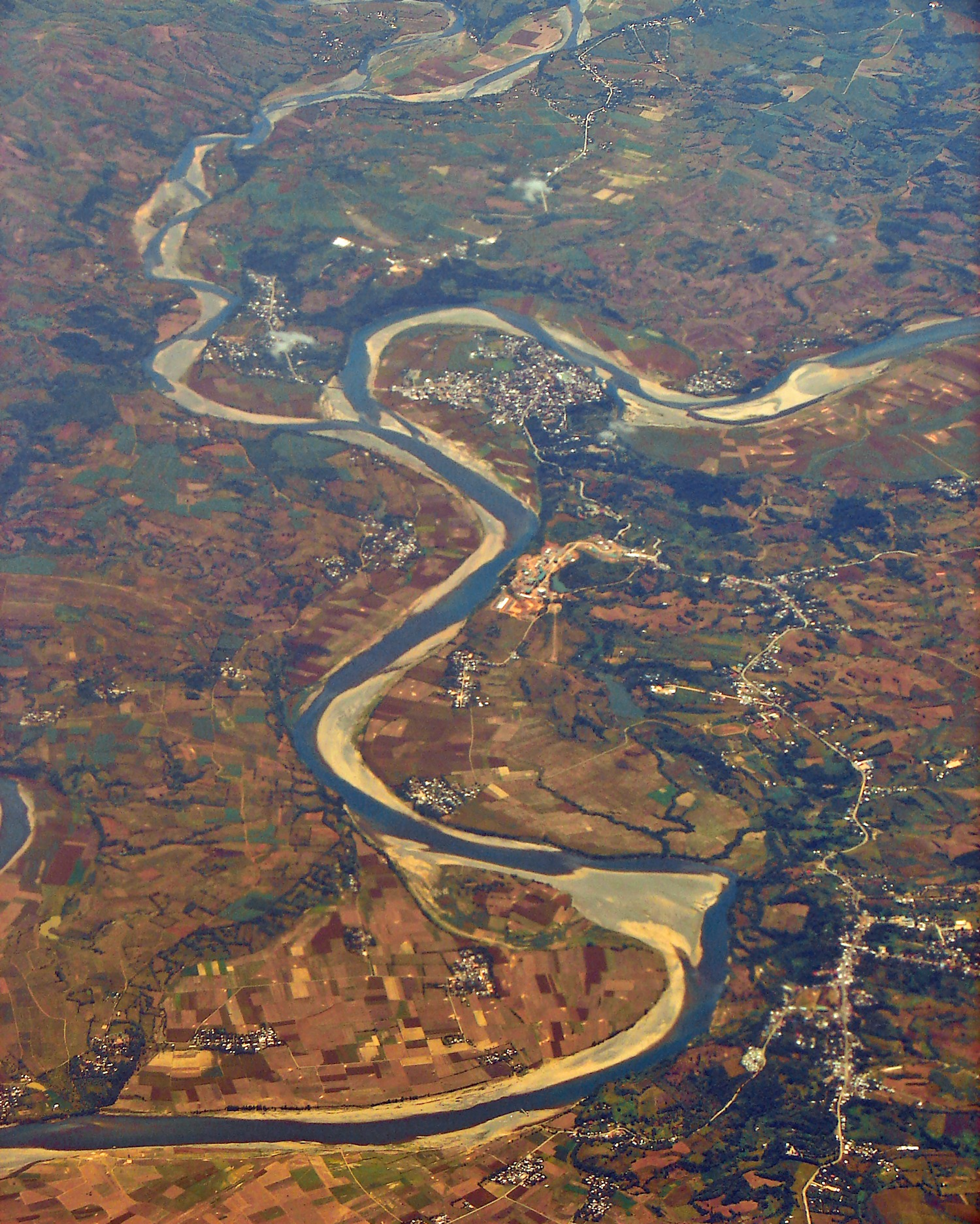 Aerial view of Benito Soliven (foreground) and San Mariano (background), Isabela Province, Philippines